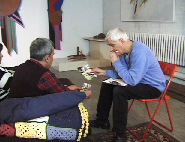 Hopkins examines photo of UFO that he believes abducted the man.